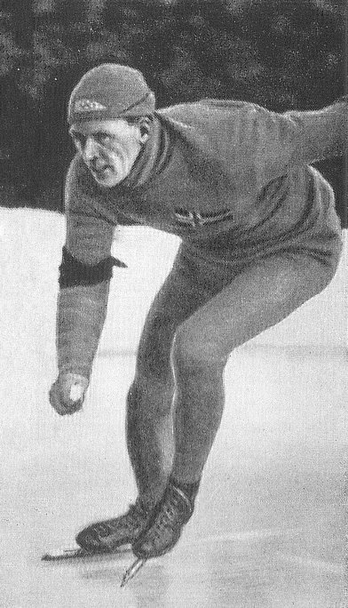 W.A. & A.C. Churchman cigarette card of Hans Engnestangen. Card no. 40 of a series of 50 cards titled "Kings of Speed"